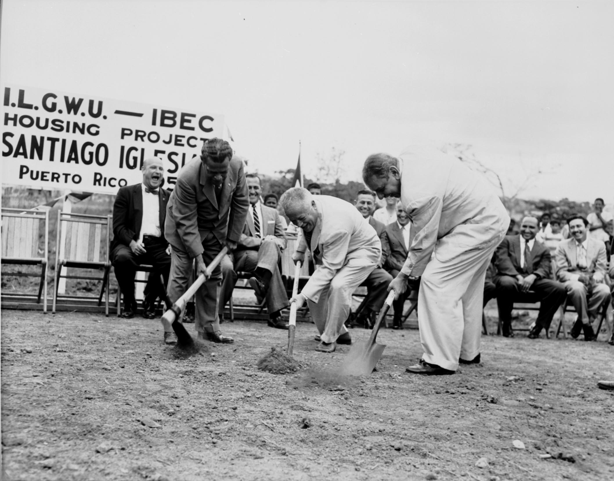 Title: David Dubinsky, Governor Munoz, and an unidentified man break ground for the ILGWU - IBEC Santiago Iglesias housing project in Puerto Rico, 1957. Date: 1957 Photographer: Unknown Photo ID: 5780PB29F3G Collection: International Ladies Garment Workers Union Photographs (1885-1985) Repository: The Kheel Center for Labor-Management Documentation and Archives in the ILR School at Cornell University is the Catherwood Library unit that collects, preserves, and makes accessible special collections documenting the history of the workplace and labor relations. Notes: No additional information available. Copyright: The copyright status of this image is unknown. It may also be subject to third party rights of privacy or publicity. Images are being made available for purposes of private study, scholarship, and research. The Kheel Center would like to learn more about this image and hear from any copyright owners who are not properly identified so that we may make the necessary corrections. Tags: Kheel Center for Labor-Management Documentation and Archives,Cornell University Library,Labor Leaders, Public Figures, Union Housing, Puerto Ricans, Ceremonies